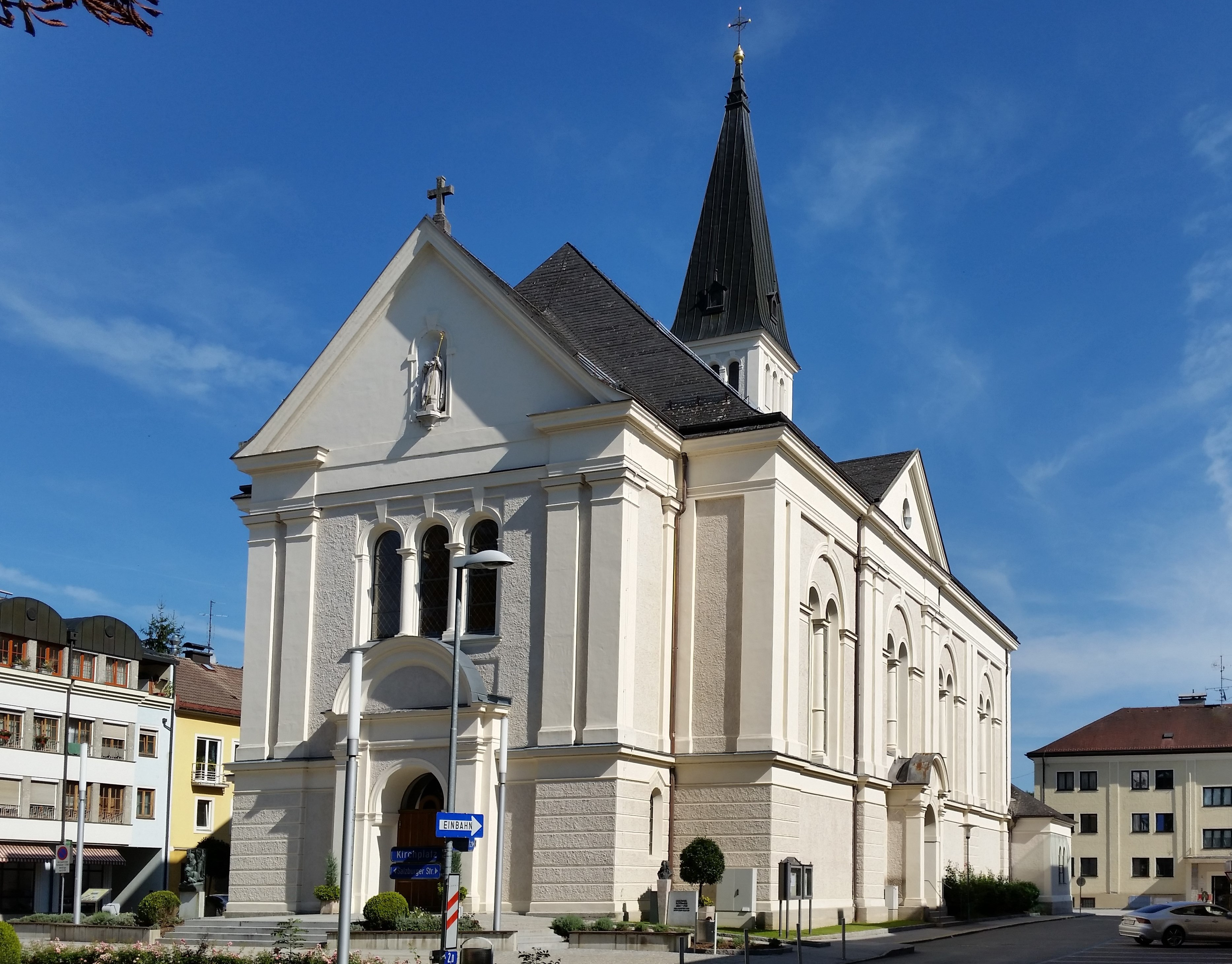 Oberndorf bei Salzburg - Pfarrkirche hl. Nikolaus Dieses Bild wurde anlässlich des österreichischen Tags des Denkmals 2016 in Salzburg eingereicht.